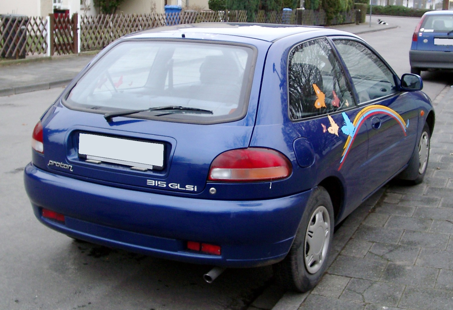 Proton 315 GLSi